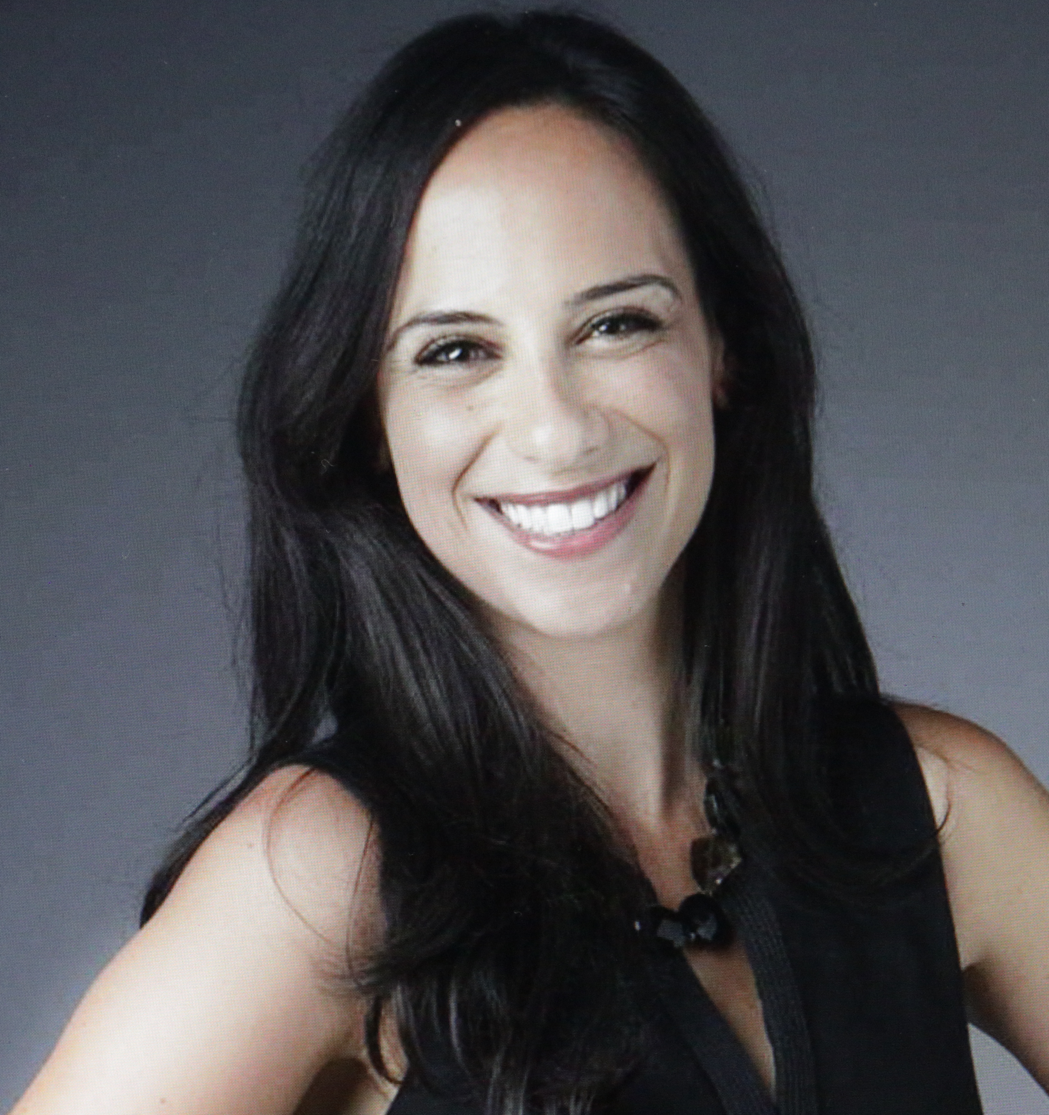 Daliah Saper studio portrait photograph.